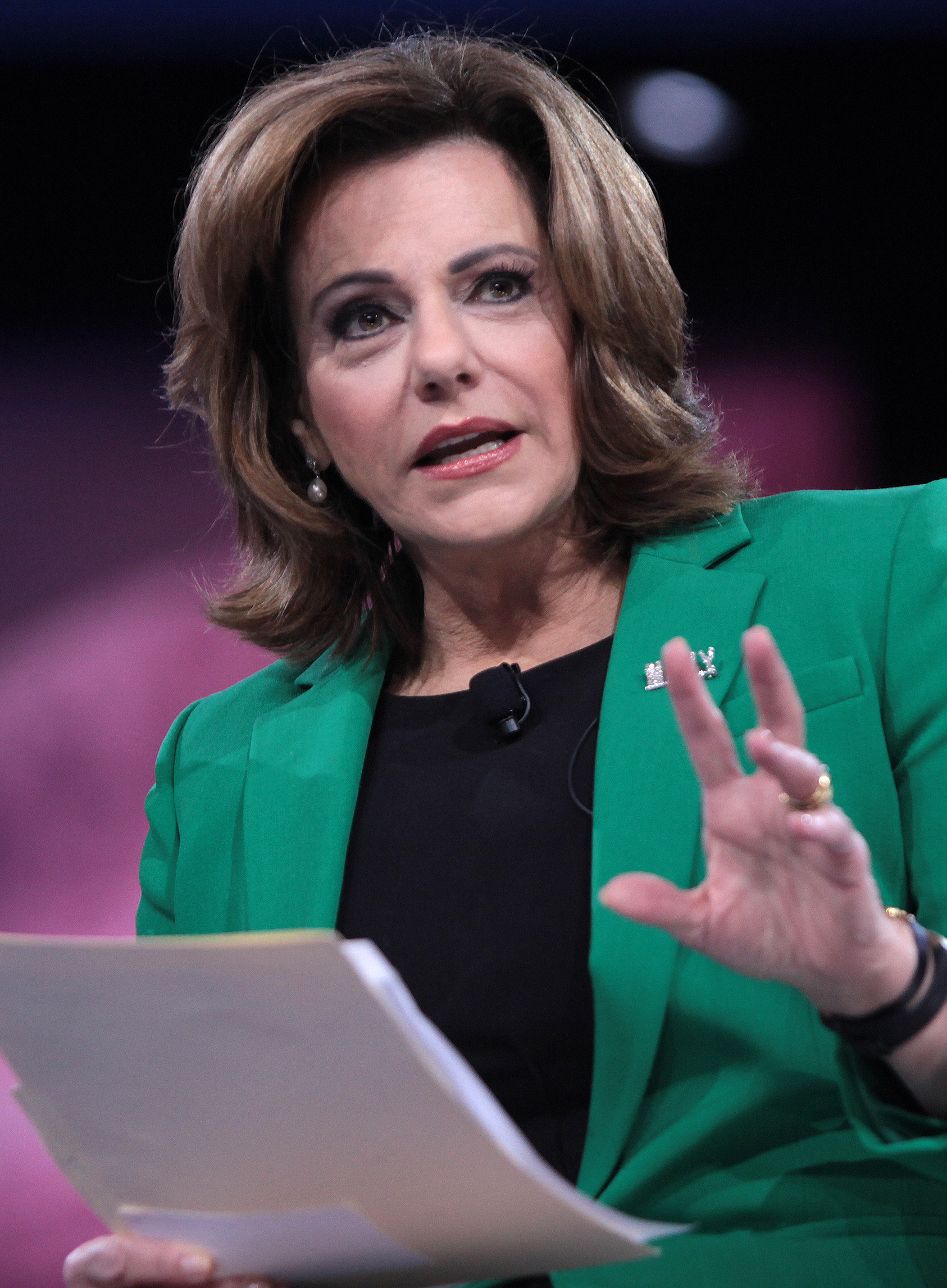 KT McFarland speaking at CPAC 2016 in Washington, DC.